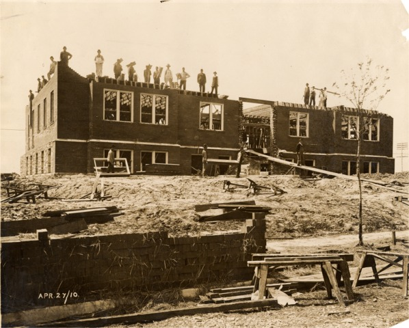 Lenox Hall's new building in University City was designed by Barnett, Haynes and Barnett. In this photograph taken of the north facade on Washington Avenue on April 27, 1910, construction is well under way. A large stack of bricks is piled in the street and the building is surrounded by other construction materials. Construction workers appear to have lined up on top of the building to pose for this photograph.